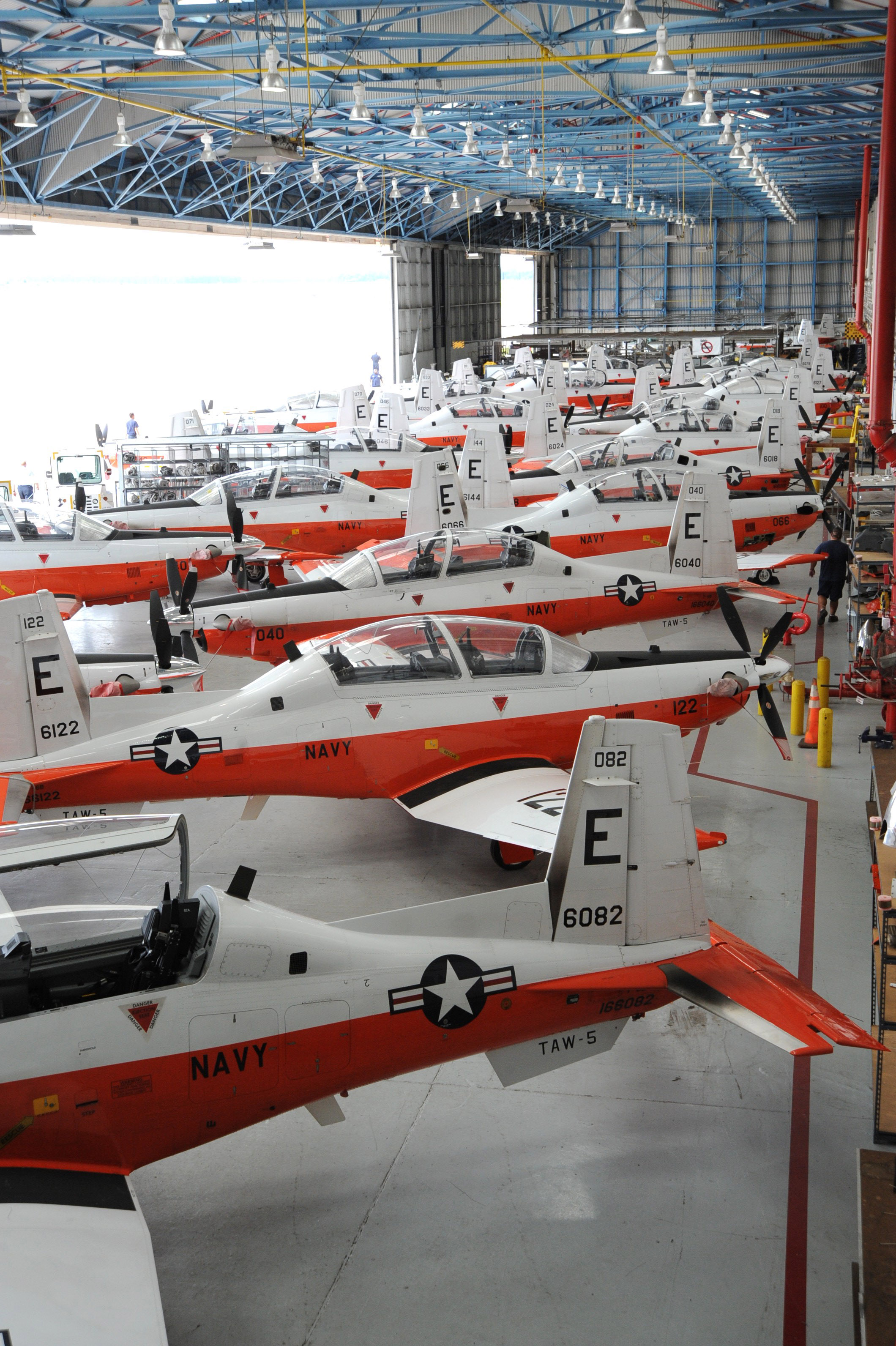 NAVAL AIR STATION WHITING FIELD, Fla. (Aug. 27, 2012) T-6B Texan II aircraft fill the North Field hangar at Naval Air Station Whiting Field. The base and Training Air Wing (TRAWING) 5 are ceasing flight operations and either housing the aircraft or flying them out to avoid damage from Tropical Storm Isaac. (U.S. Navy photo by Jay Cope/Released) 120827-N-WW980-005 Join the conversation navylive.dodlive.mil